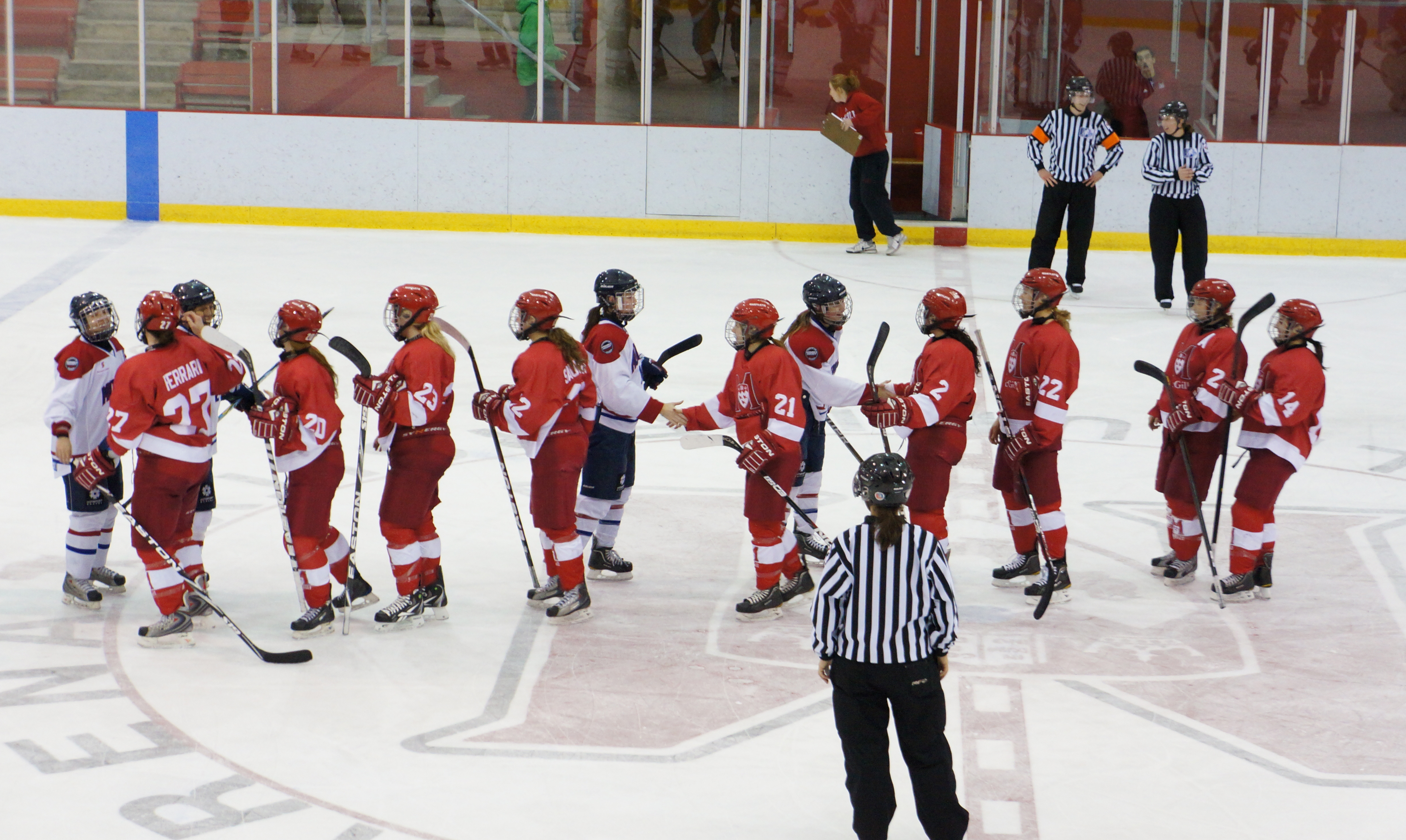 McGill Martlets